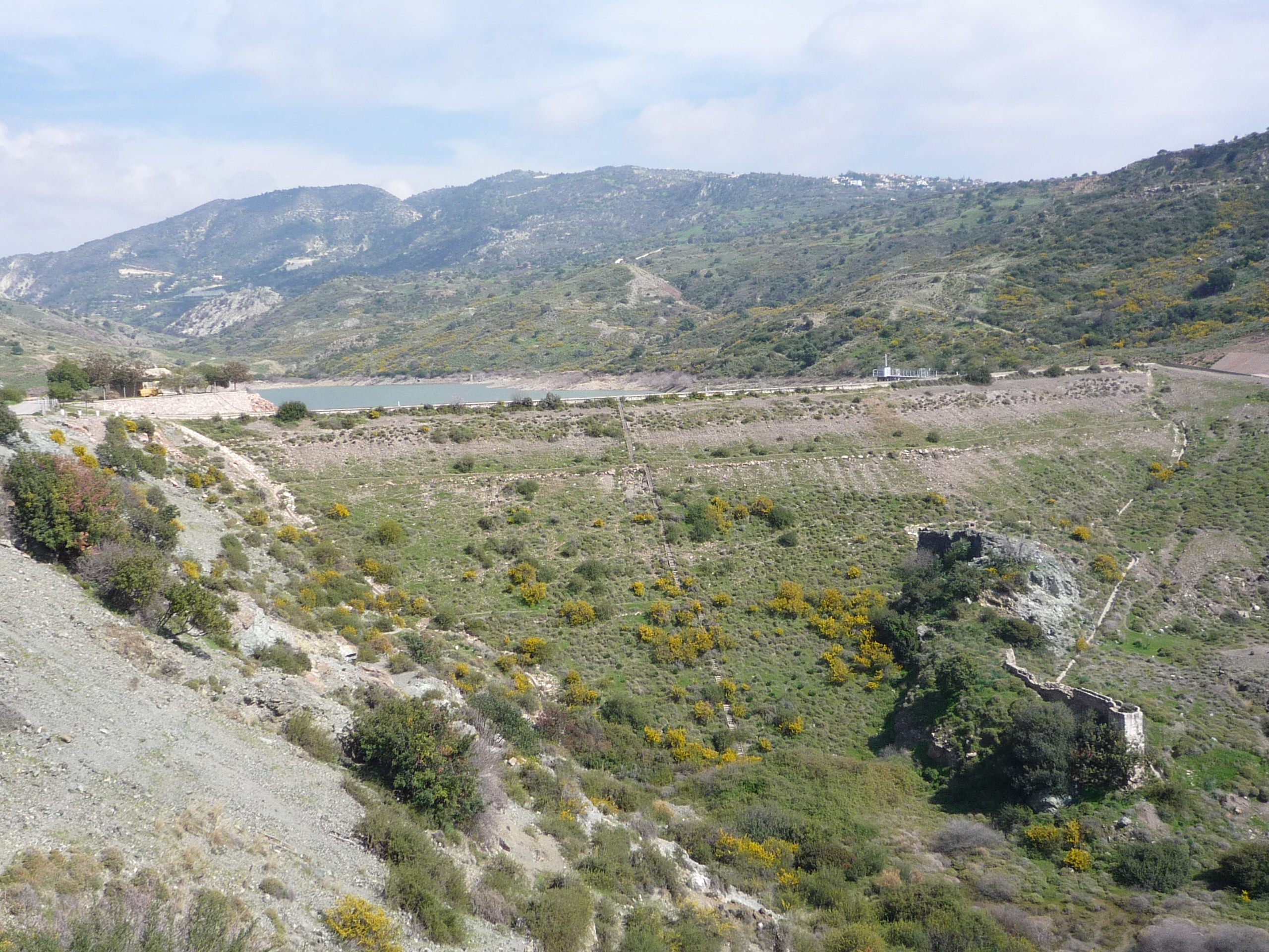 The Mavrokolympos Dam in Paphos District, Cyprus.